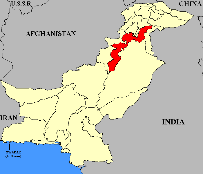 Approximate location of the first North-West Frontier Province (1901–1955) within Pakistan